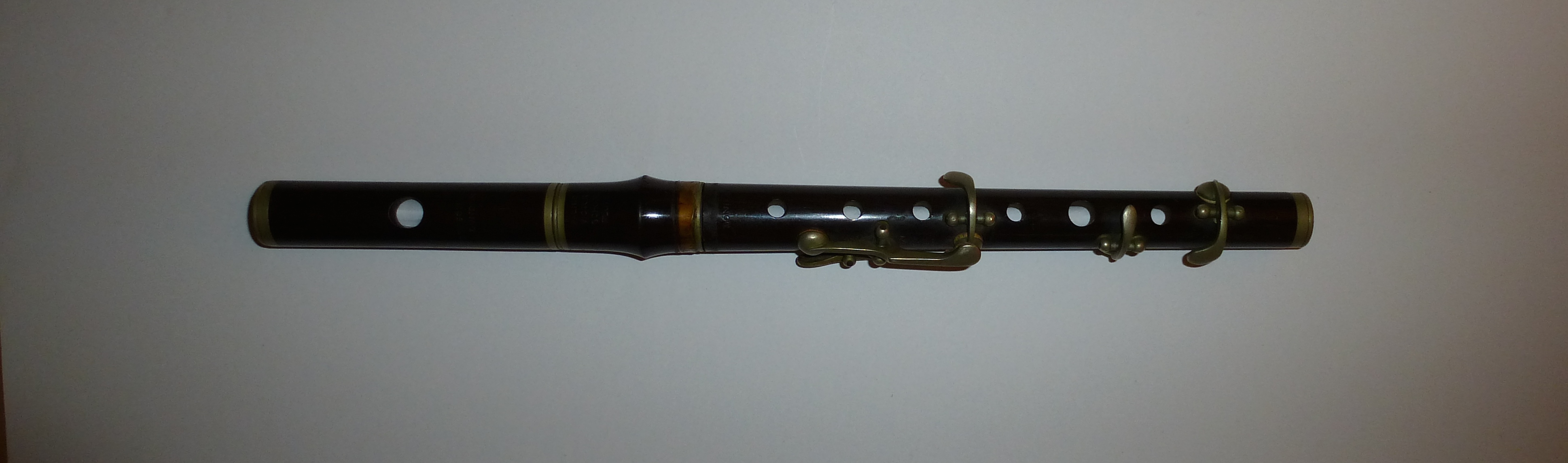 A B flat school flute inscribed "Bessing, London, Paling, Victor School Flute; owned by pupil Richard Browne, Bondi Public School about 1937.